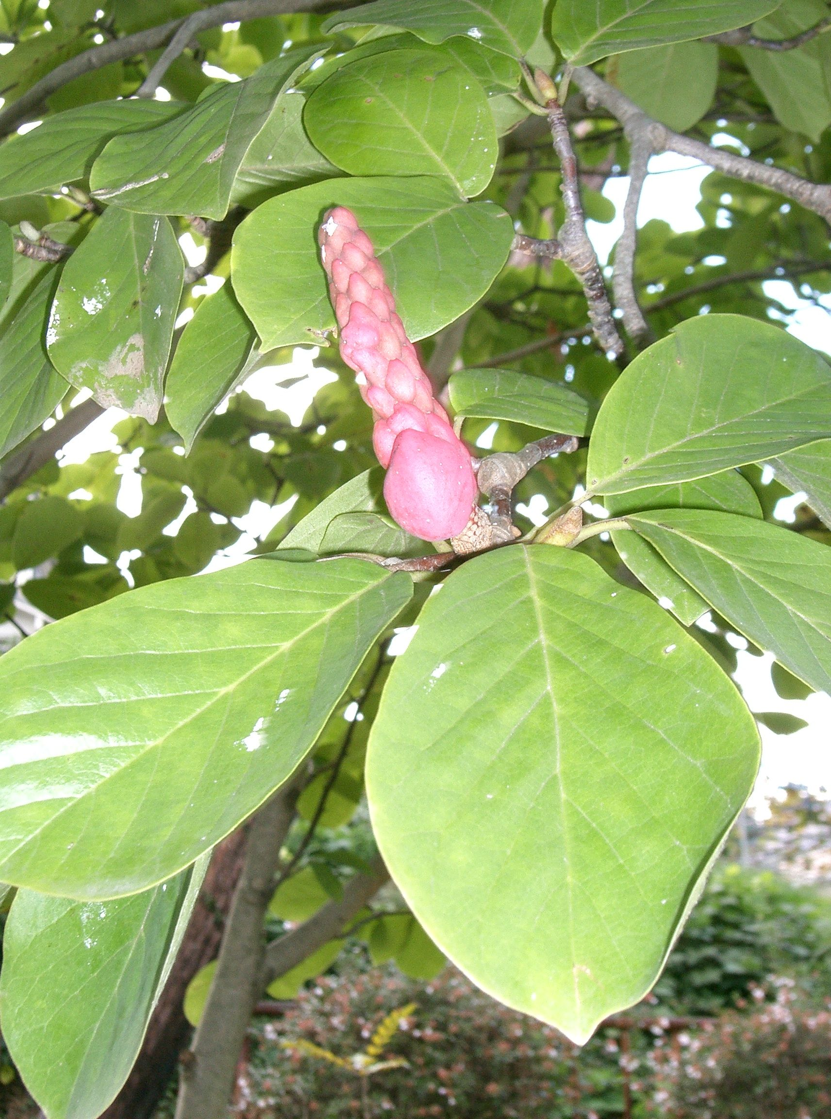 Magnolia denudata fruit, photographed in Osaka-fu Japan